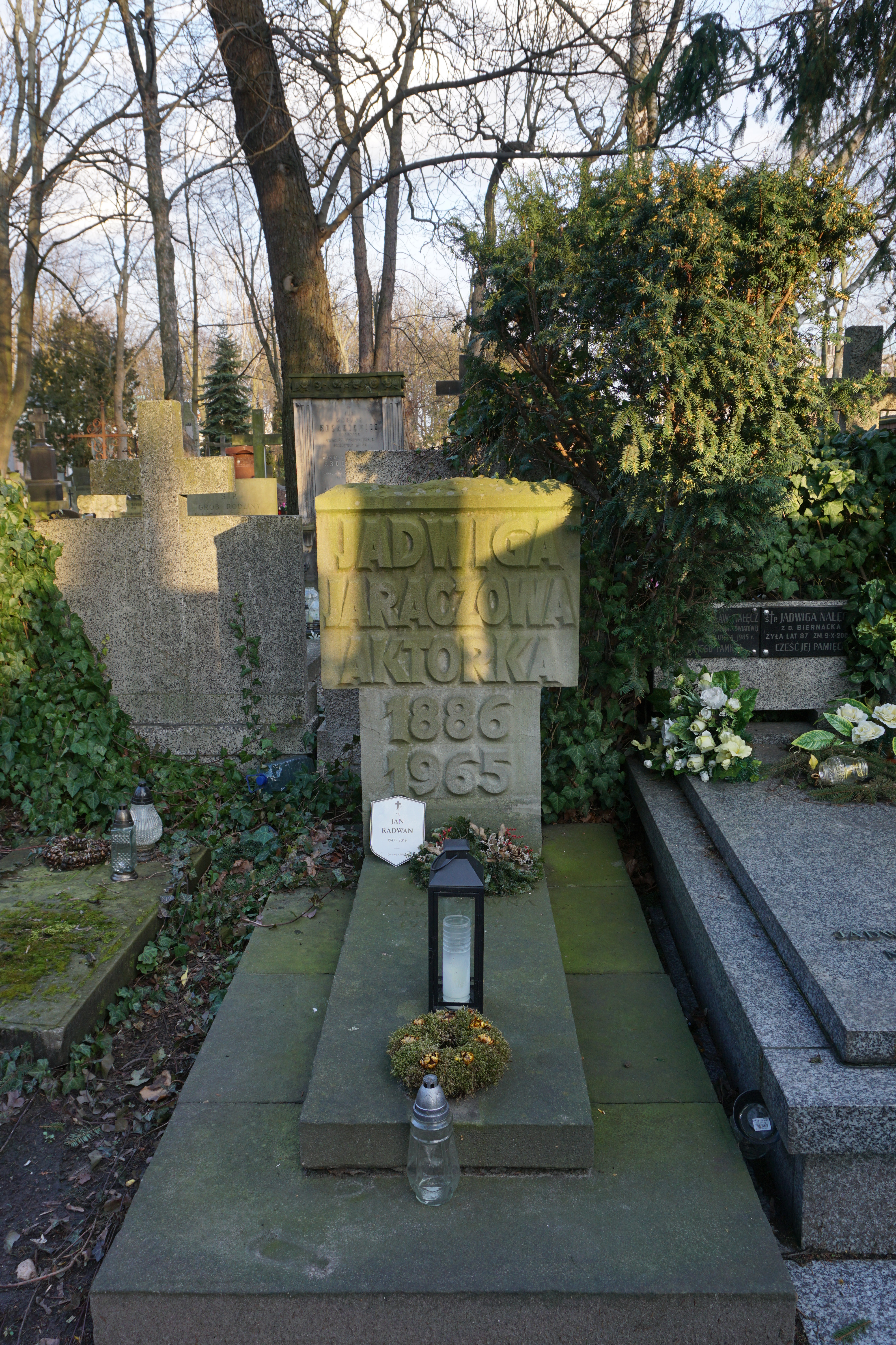 The grave of Anna Jaraczówna at the Powązki Cemetery (section 169, row 6, grave 23)